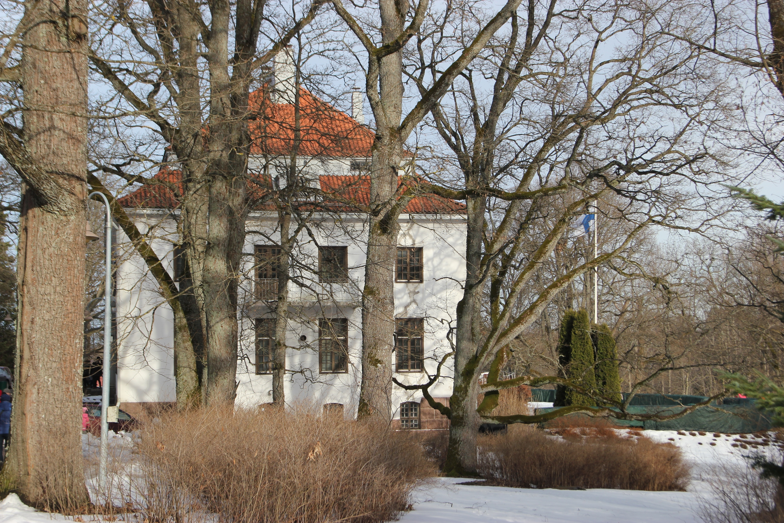 Träskända Manor, Espoo, Finland